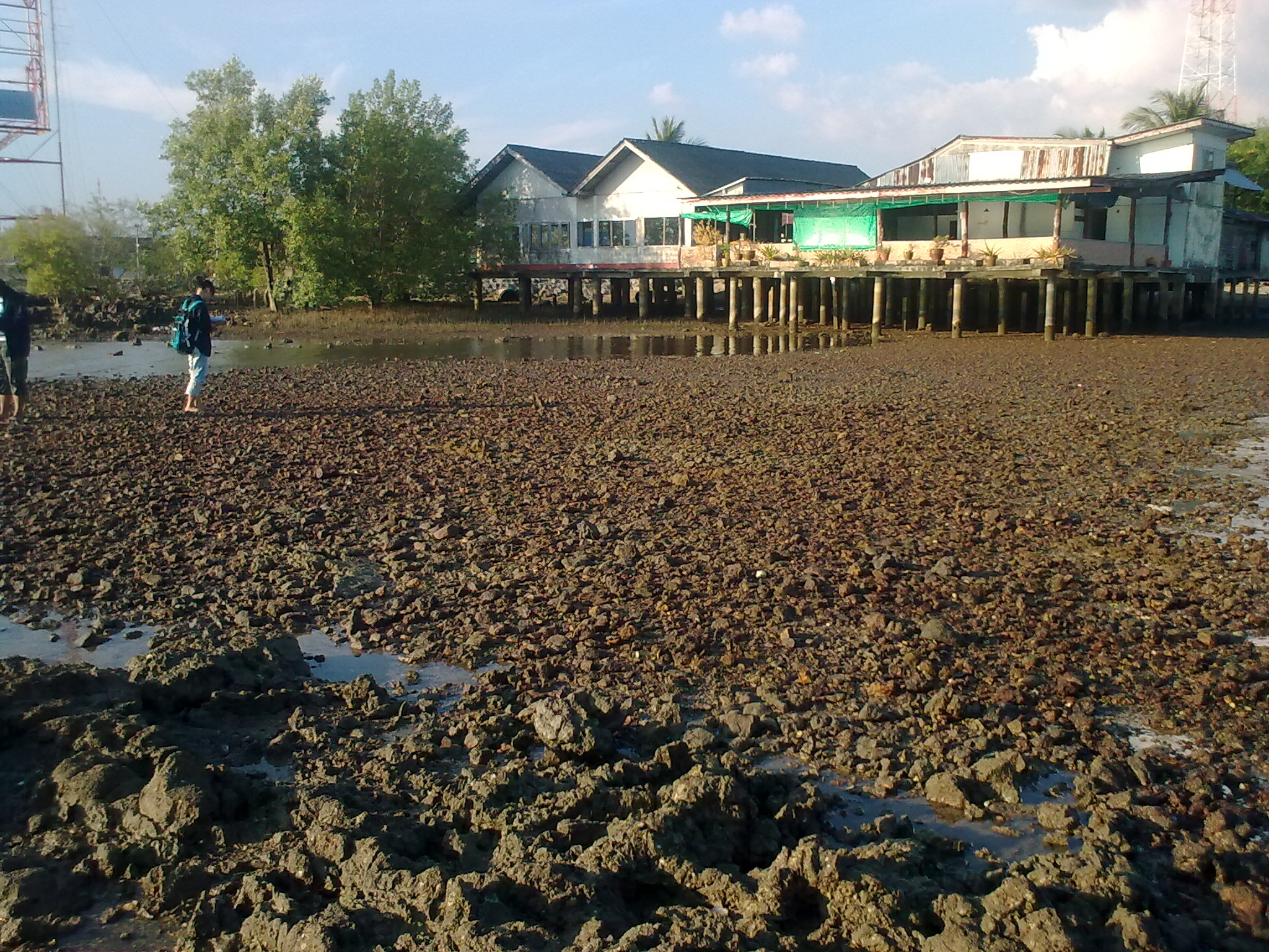 Laem Ngob chert outcrop under sea near seashore during the low tide in Laem Ngob, Trat province, Thailand